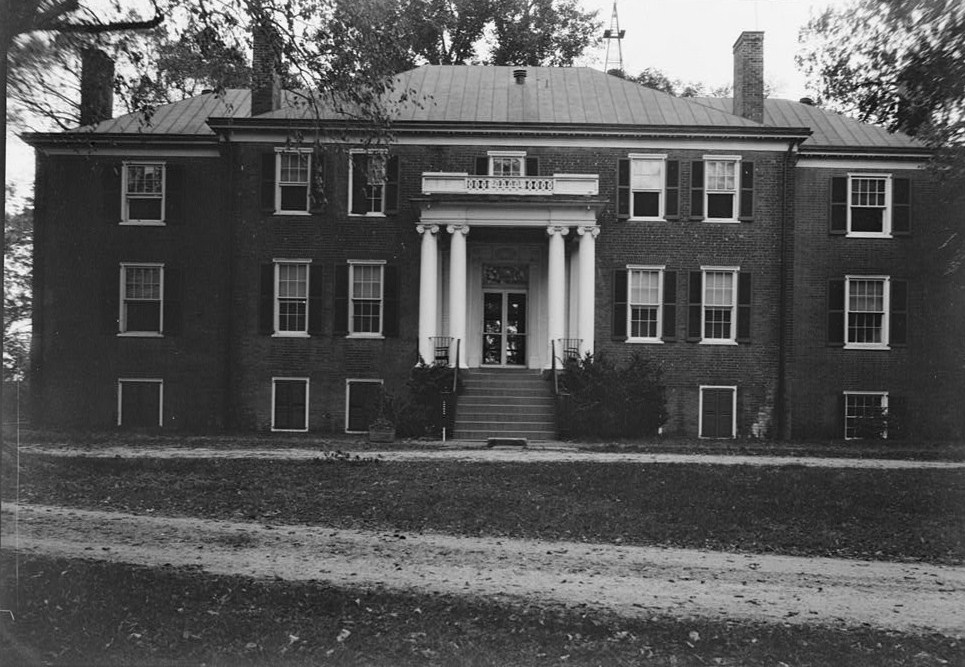 Norwood, State Route 711 vicinity, Wyndham vicinity (Powhatan County, Virginia) cropped, HABS VA,73-WYND.V,1-1 This file comes from the Historic American Buildings Survey (HABS), Historic American Engineering Record (HAER) or Historic American Landscapes Survey (HALS). These are programs of the National Park Service established for the purpose of documenting historic places. Records consist of measured drawings, archival photographs, and written reports. When reusing please credit: Library of Congress, Prints & Photographs Division, VA-148 This tag does not indicate the copyright status of the attached work. A normal copyright tag is still required. See Commons:Licensing for more information. This work is in the public domain in the United States because it is a work prepared by an officer or employee of the United States Government as part of that person’s official duties under the terms of Title 17, Chapter 1, Section 105 of the US Code. See Copyright. Note: This only applies to original works of the Federal Government and not to the work of any individual U.S. state, territory, commonwealth, county, municipality, or any other subdivision. This template also does not apply to postage stamp designs published by the United States Postal Service since 1978. (See § 313.6(C)(1) of Compendium of U.S. Copyright Office Practices). It also does not apply to certain US coins; see The US Mint Terms of Use. This file has been identified as being free of known restrictions under copyright law, including all related and neighboring rights.